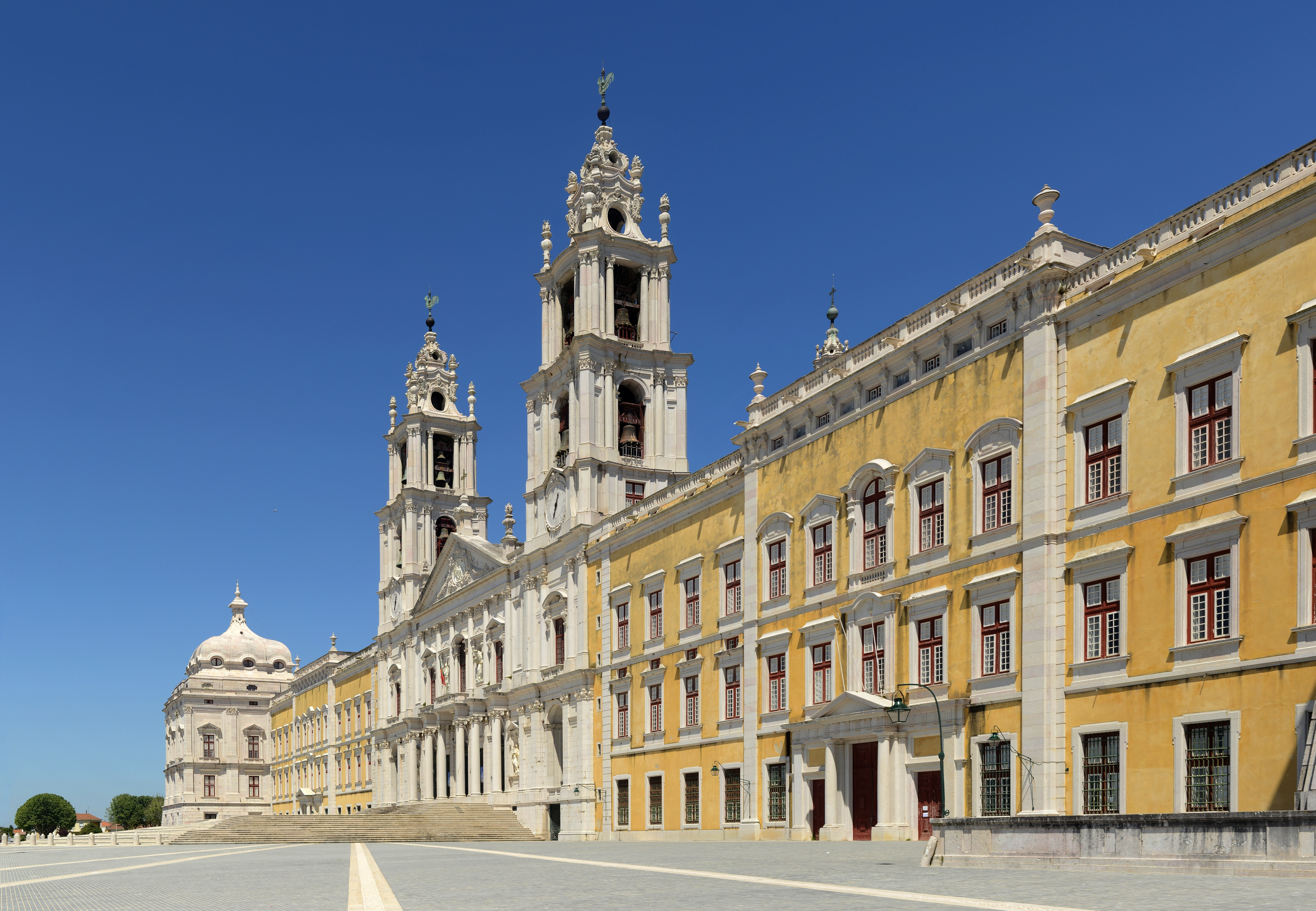 Main facade of Mafra National Palace, Portugal